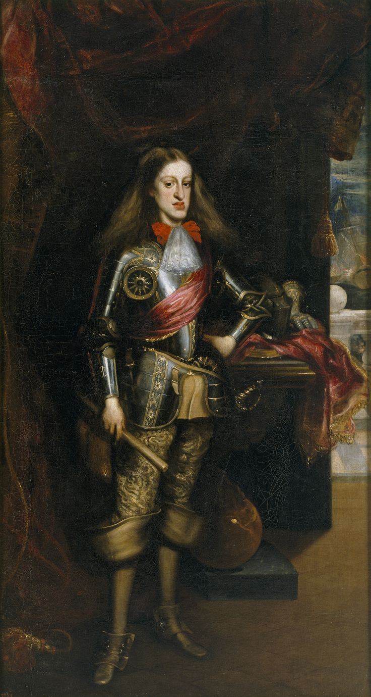 The son of Felipe IV (1605-1665) and Mariana of Austria (1634-1696), Carlos II (1661-1700) was the last King of the Hapsburg Dynasty in Spain. He appears dressed in black, with the chain of the Golden Fleece around his neck. This order from Burgundy, to which he belonged, was first brought to Spain by Felipe el Hermoso (1578-1506). Retrato de Carlos II (1661-1700), hijo de Felipe IV (1605-1665) y Mariana de Austria (1634-1696), último Rey de la dinastía de los Austrias en España. El Monarca aparece vestido de negro y luciendo la condecoración del Toisón de Oro al cuello, orden borgoñona a la que pertenecía y que fue introducida en España por Felipe el Hermoso (1478-1506).